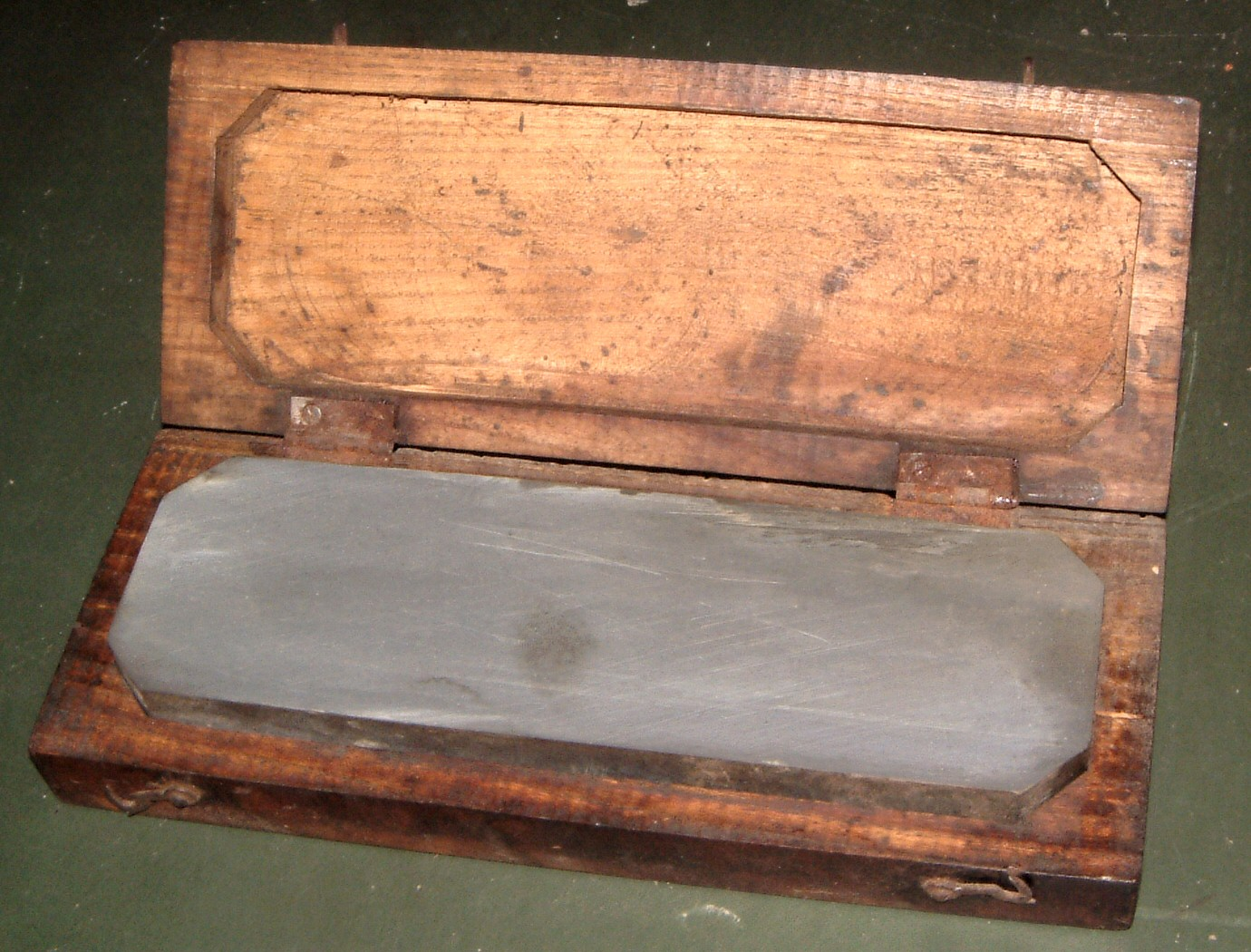 Natural sharpening stone from Belgium, gray blue, about 4000 grit, in old wooden box.